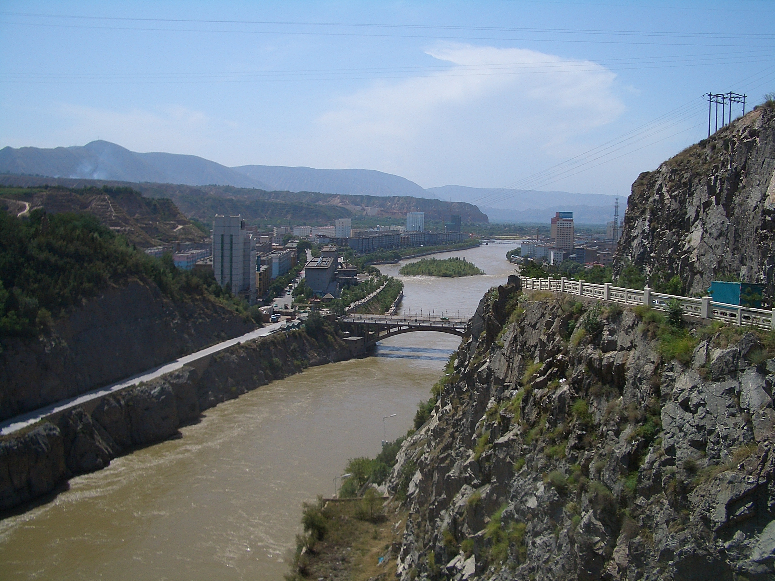 The Yellow River in Liujiaxia Town.Looking west (downstream), toward the town, from an observation area on the eastern outskirts (on the road to the dam)